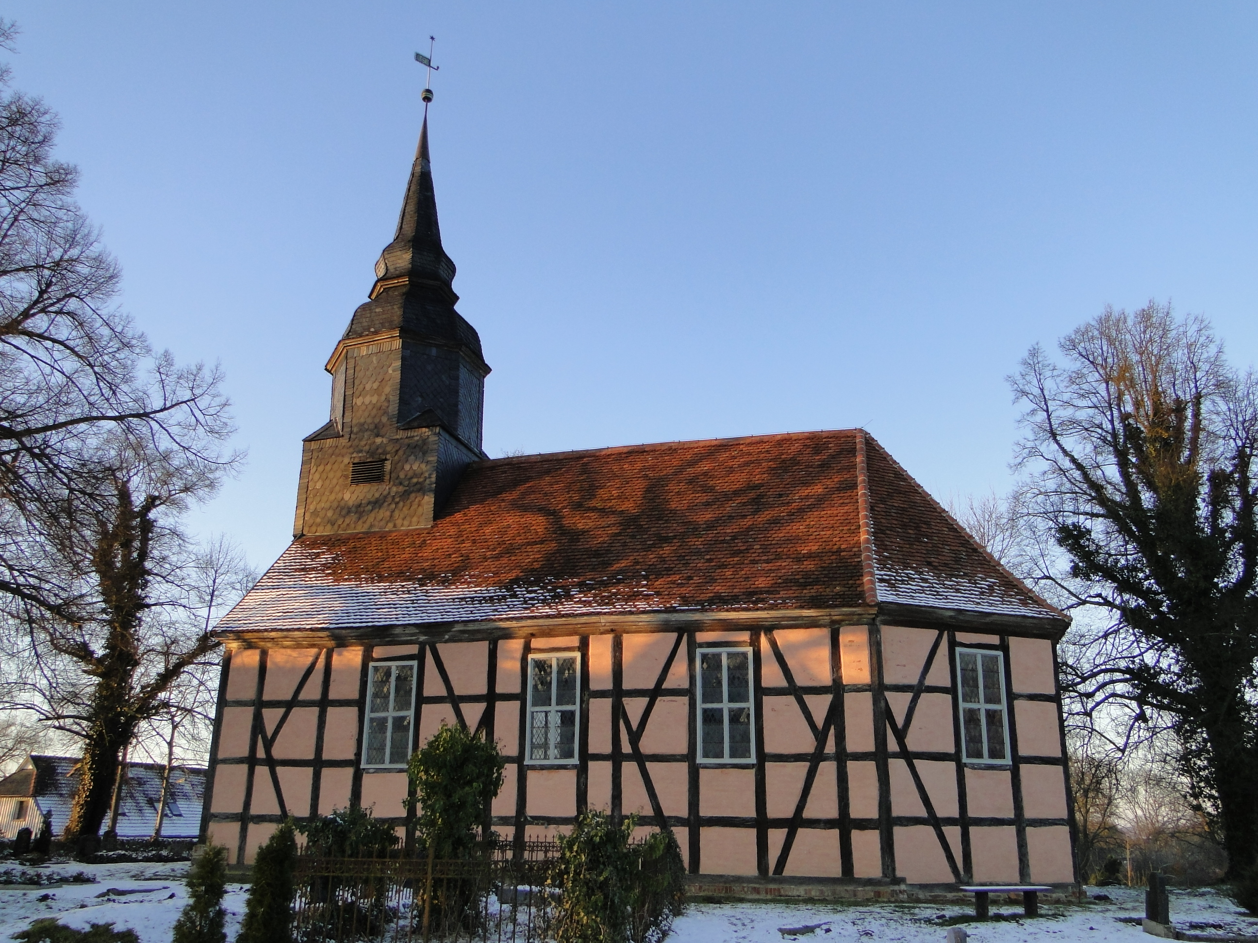 Church in Schönhausen, district Mecklenburg-Strelitz, Mecklenburg-Vorpommern, Germany